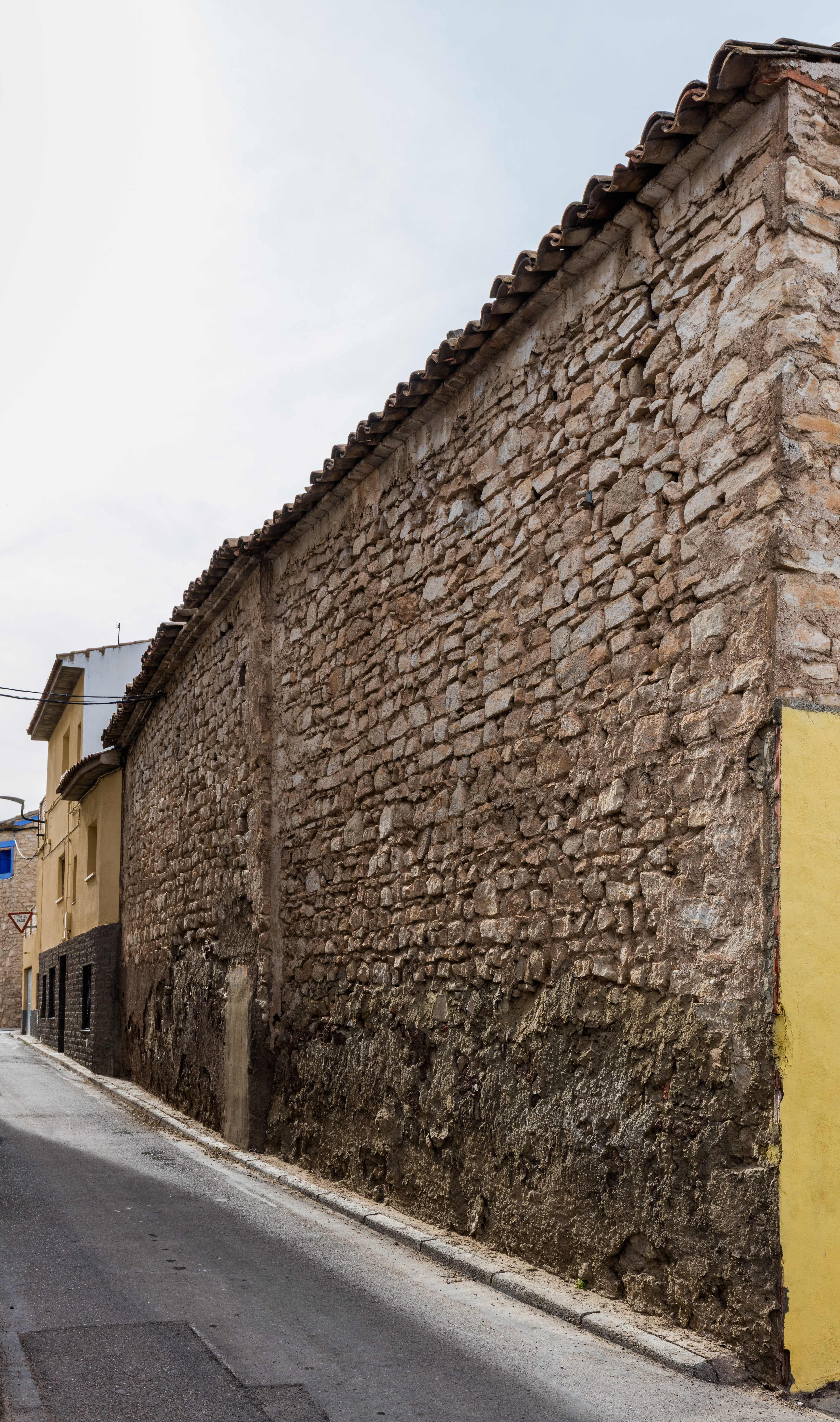 Wall, Épila, Zaragoza, Spain